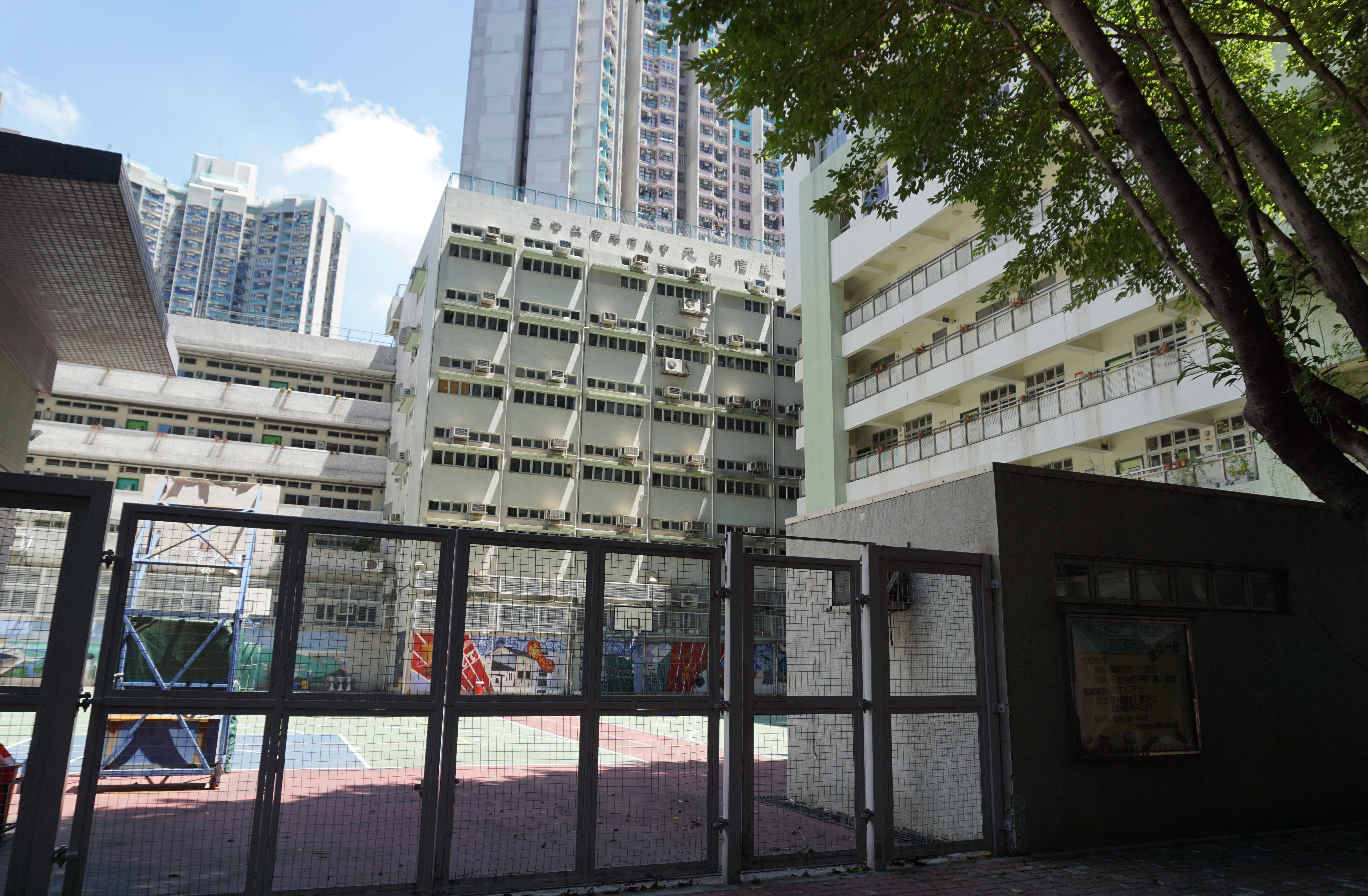 Yuen Long Lutheran Secondary School in Tin Shui Wai, Hong Kong.